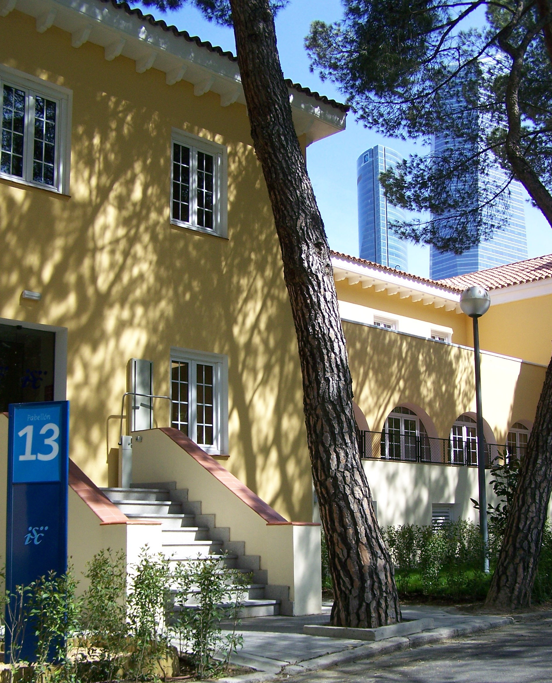 Unidad